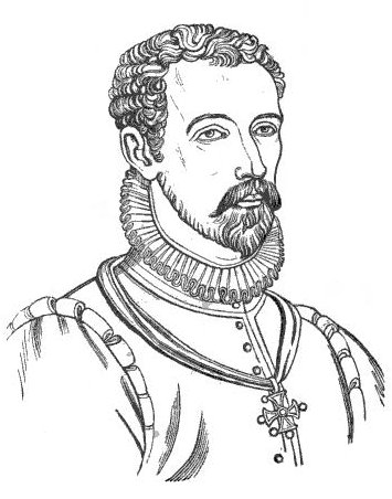 Domenico Ragnina. Old ragusan painting.